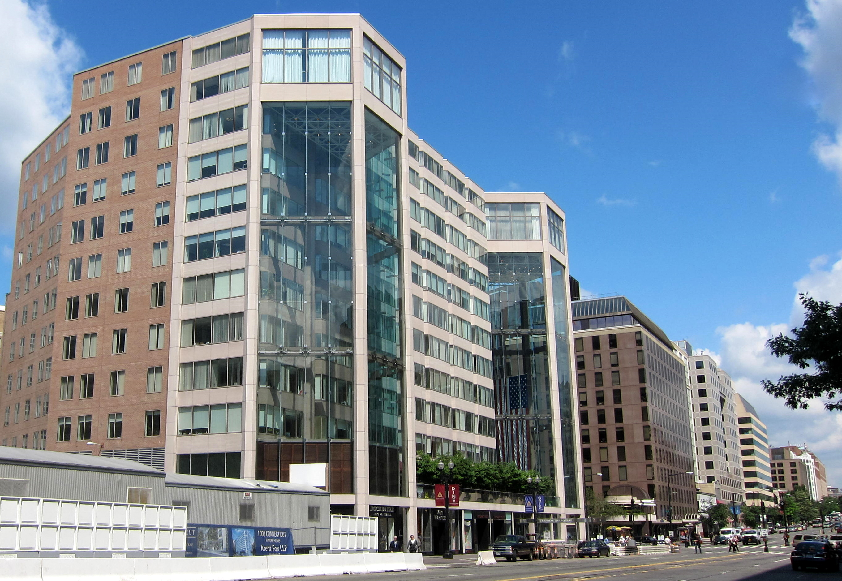 Washington Square (foreground) located at 1050 Connecticut Avenue, N.W., in downtown Washington, D.C. Built in 1982, the 12-story, modernist high-rise was designed by Chloethiel Woodard Smith & Associates.